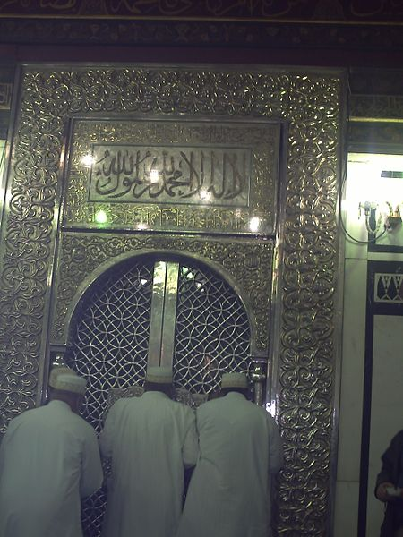 Mukalafat-al-Rasool,near rasul husain cairo